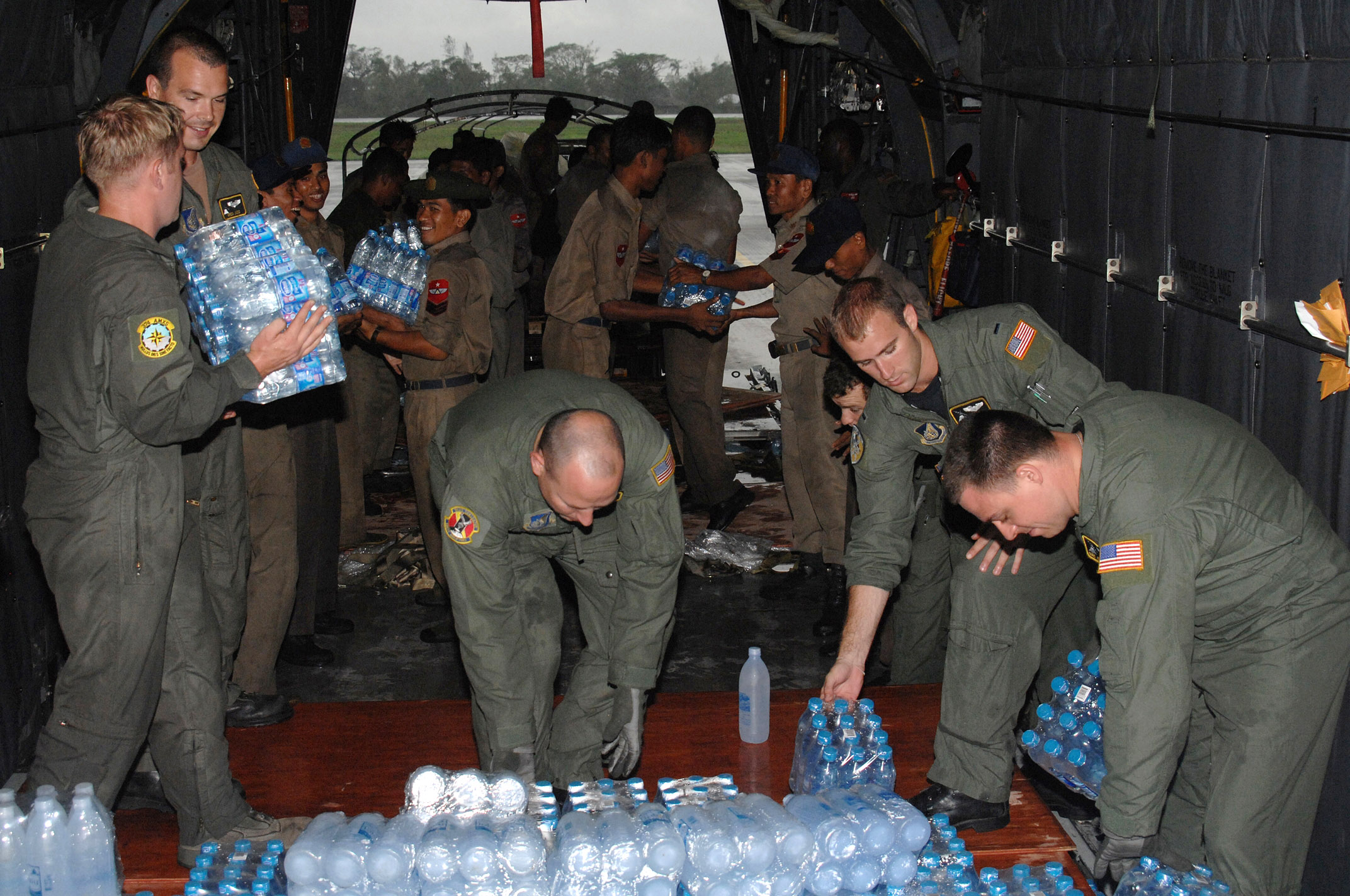 Joint Task Force Caring Response brings help to Burma. U.S, Air Force members from Yokota Air Base, Japan, assist with the delivery of humanitarian relief supplies for the people of Burma May 19 at Yangon International Airport in Burma. Approximately 15,000 pounds of water, water containers and mosquito netting were unloaded from the C-130 Hercules aircraft. The Air Force members are part of the Joint Task Force Caring Response, a multi-service Humanitarian Assistance and Disaster Relief effort for Burmese citizens devastated by a recent cyclone.